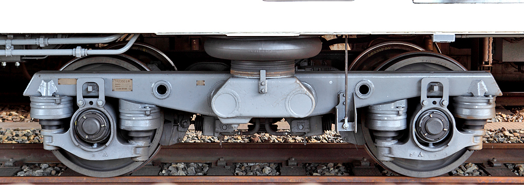 Type TR235E bogie truck of JNR 117 series EMU, belongs to the JR Central ( Kuha 116-200 ).